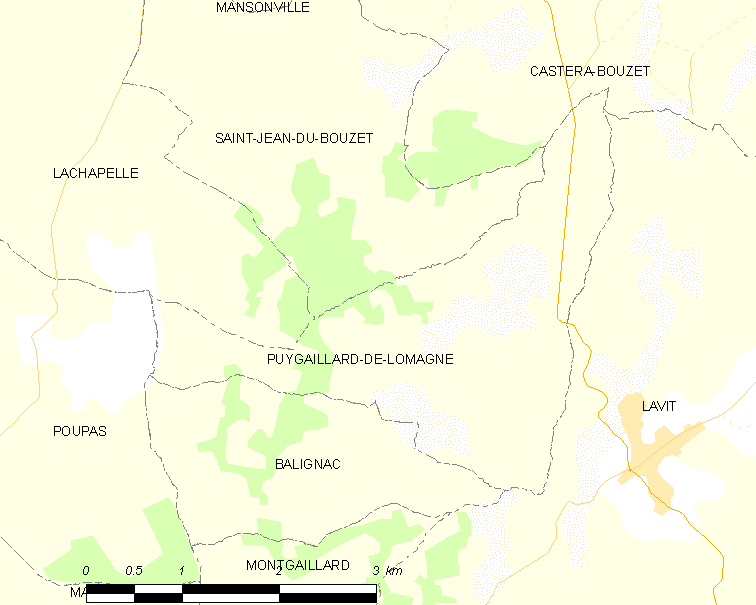 Map of French municipality Puygaillard-de-Lomagne